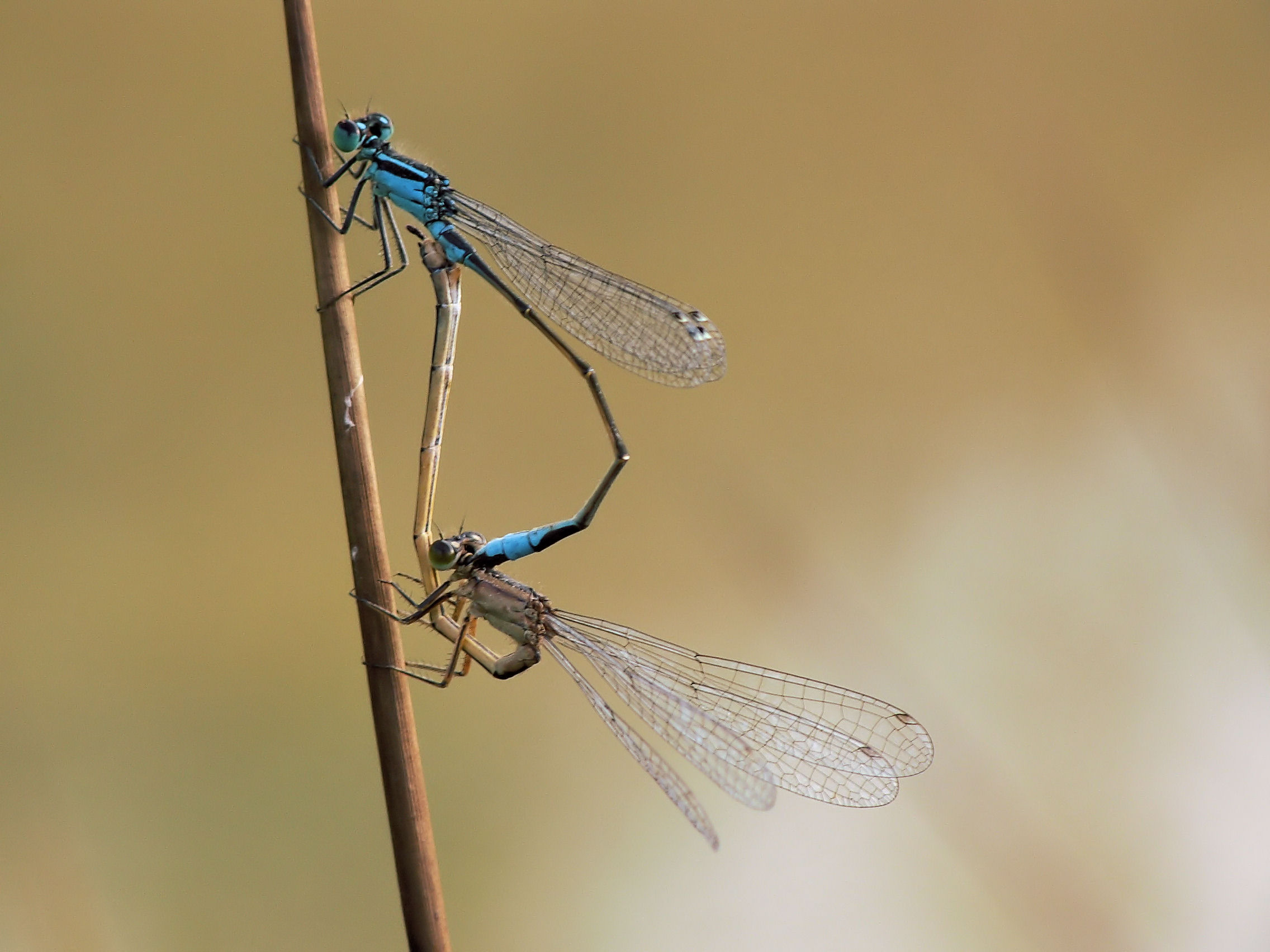 Mating wheel of Ischnura Elegans, Kwintelooijen Utrecht the Netherlands